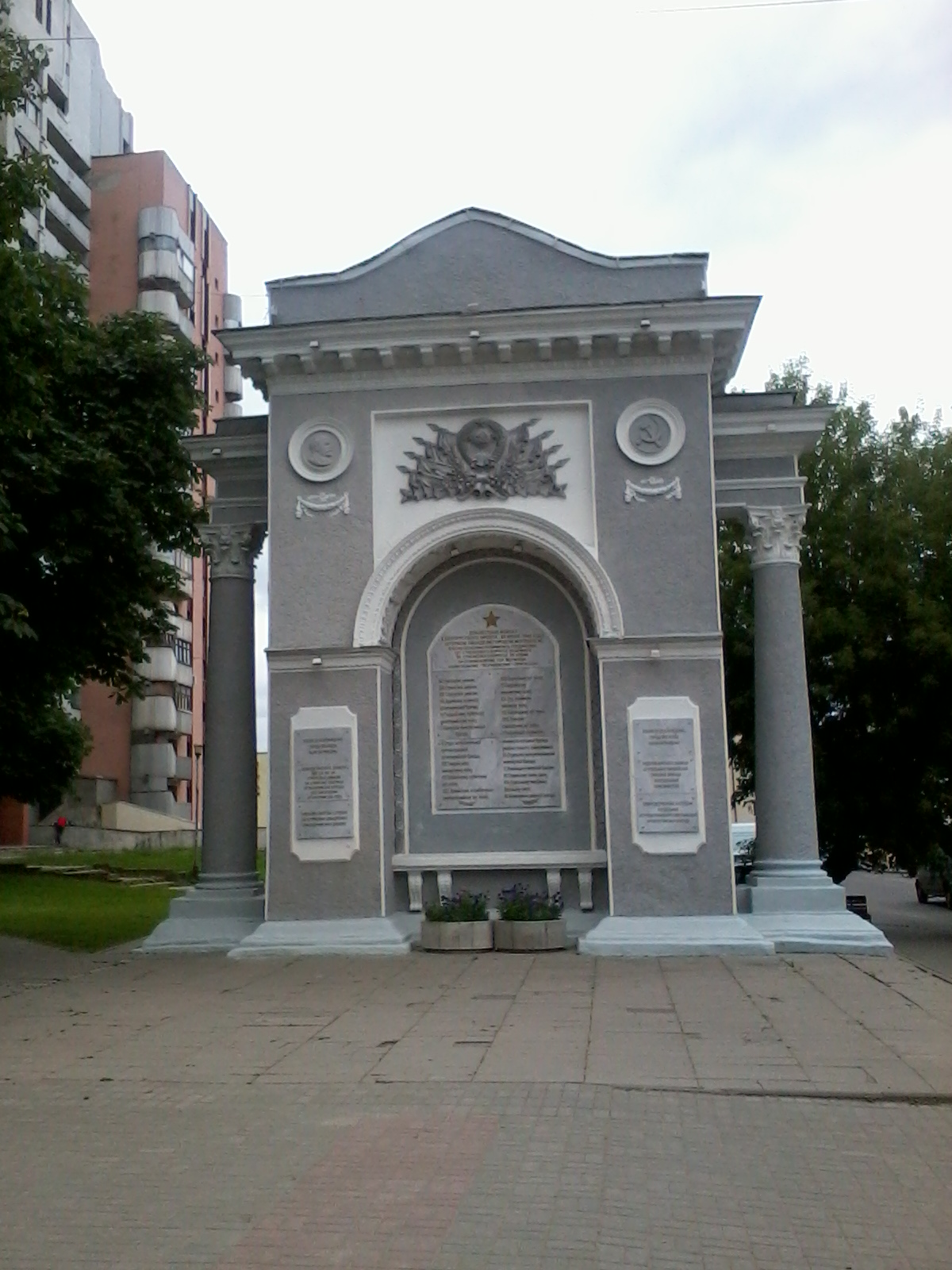 Triumphal Arch of Mogilev